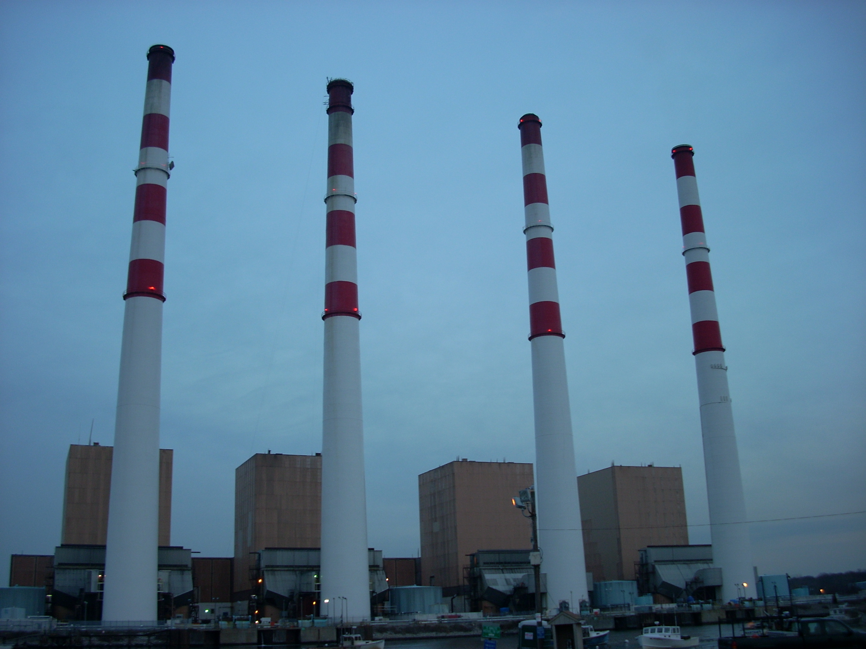 The four smokestacks at the Northport Power Station on the Long Island Sound in Northport, New York.